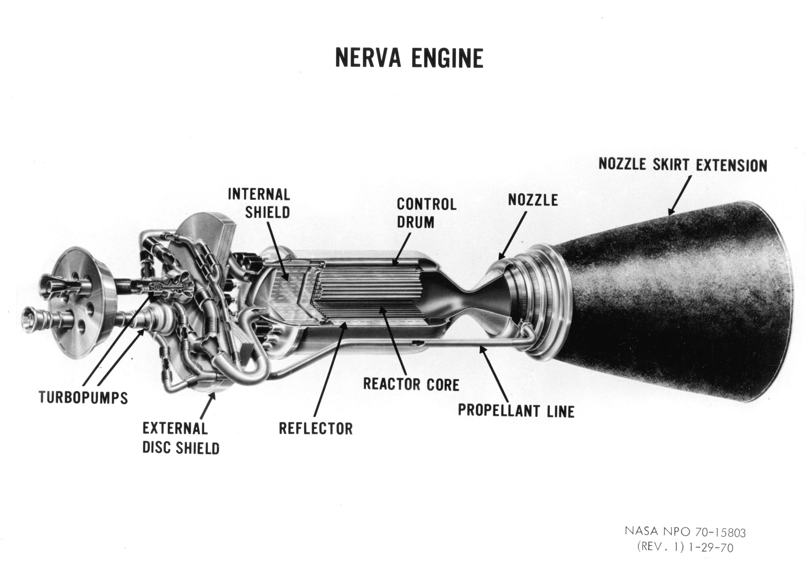 Drawing of the NERVA nuclear rocket engine (1970).